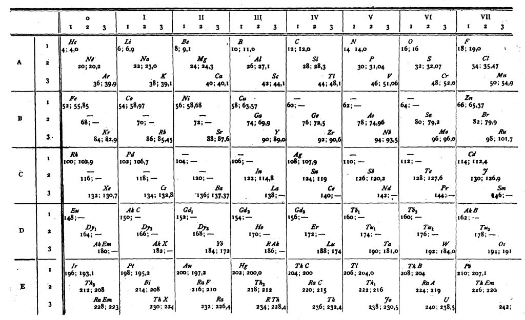 The "cubic" periodic table created by Dutch amateur physicist Antonius van den Broek in 1911.